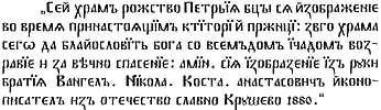 Зографският надпис в Рождество Богородично в Бегнище.